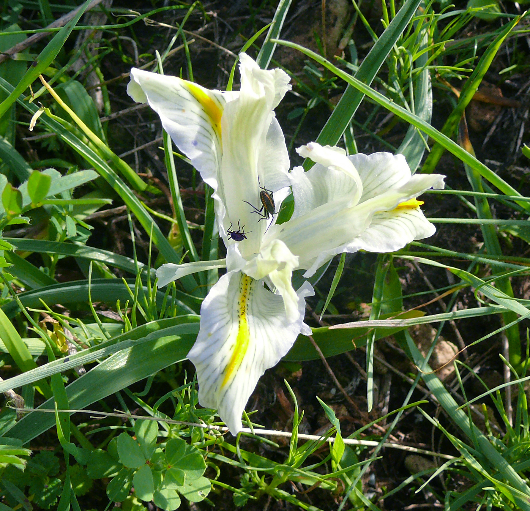 Iris palaestina